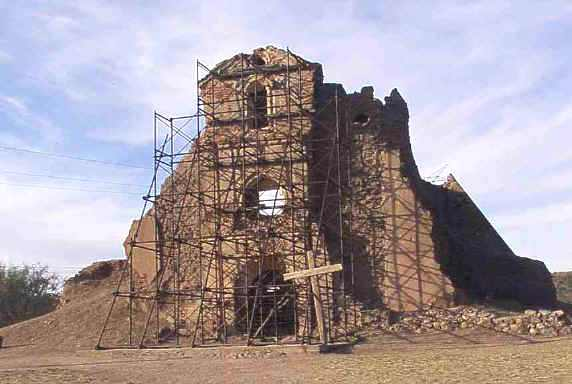 Mission Nuestra Señora del Pilar y Santiago de Cocóspera — located in Cocóspera, Sonora, México.. It was founded in the Sonoran Desert in 1689 by Padre Eusebio Kino.